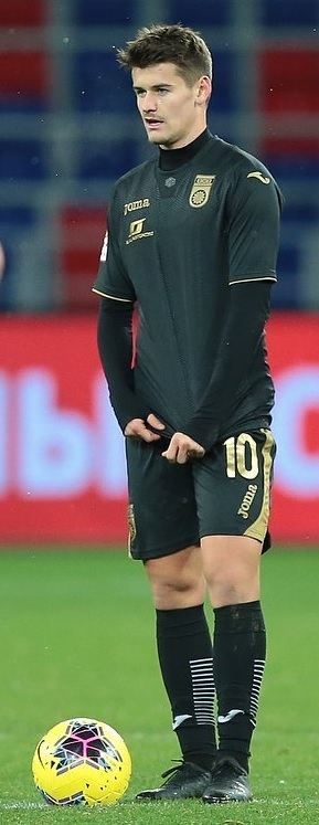 Olivier Thill with FC Ufa in a Russian Cup game against PFC CSKA Moscow.